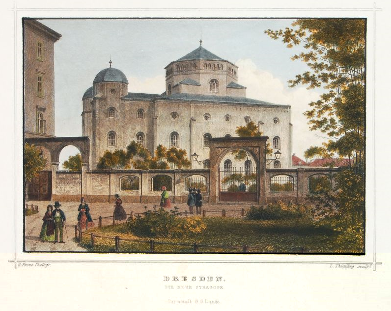 Dresden’s old Synagogue by Gottfried Semper (“Semper Synagogue”) build 1839 – 1840, destroyed 1938 during Kristallnacht colored steel engraving about 1860 - 1870 by Louis Thümling after a photograph by Hermann Krone edited by Gustav Georg Lange in Darmstadt